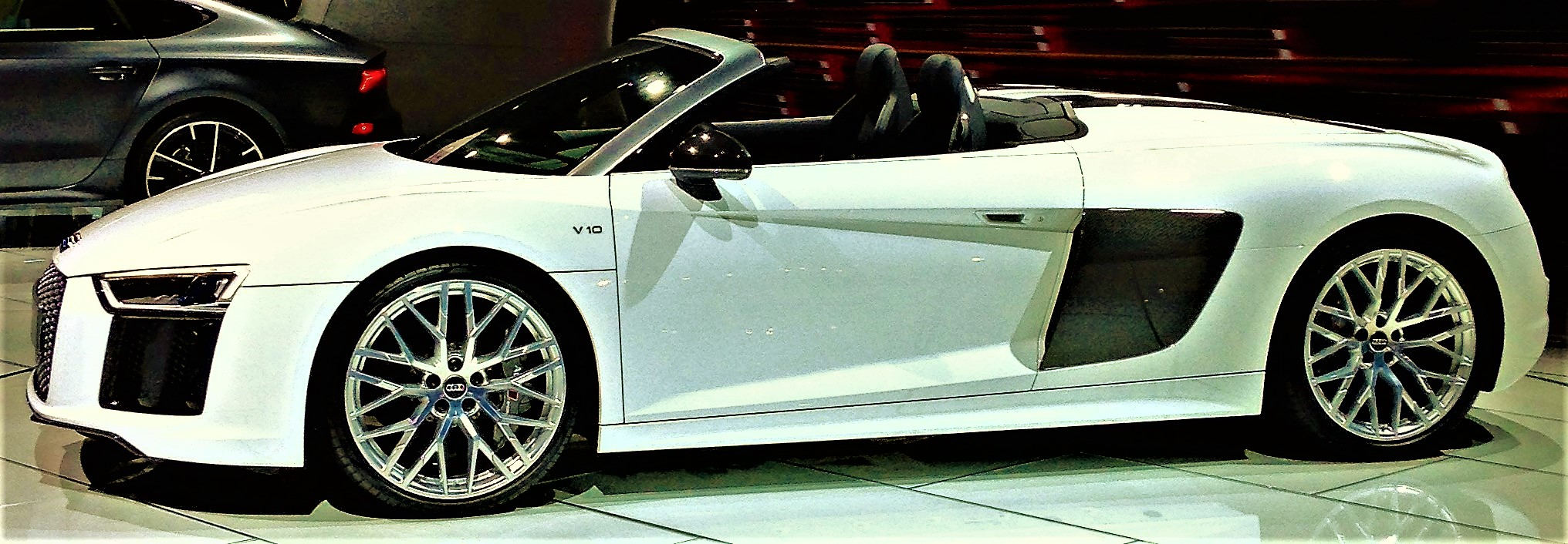 Audi R8-Spyder